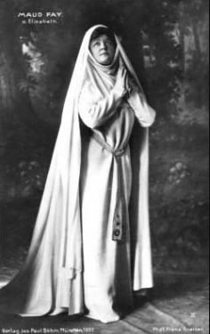 Maude Fay as Elisabeth in Wagner's Tannhäuser.